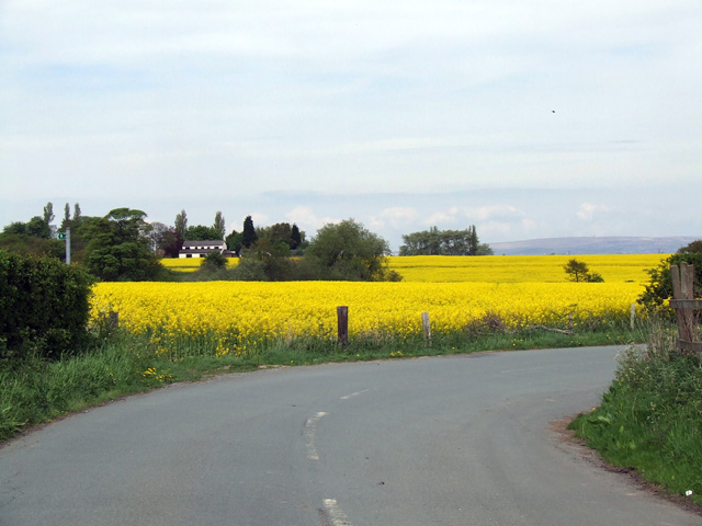 Oilseed rape field A field of Oilseed rape near to Hermitage Green